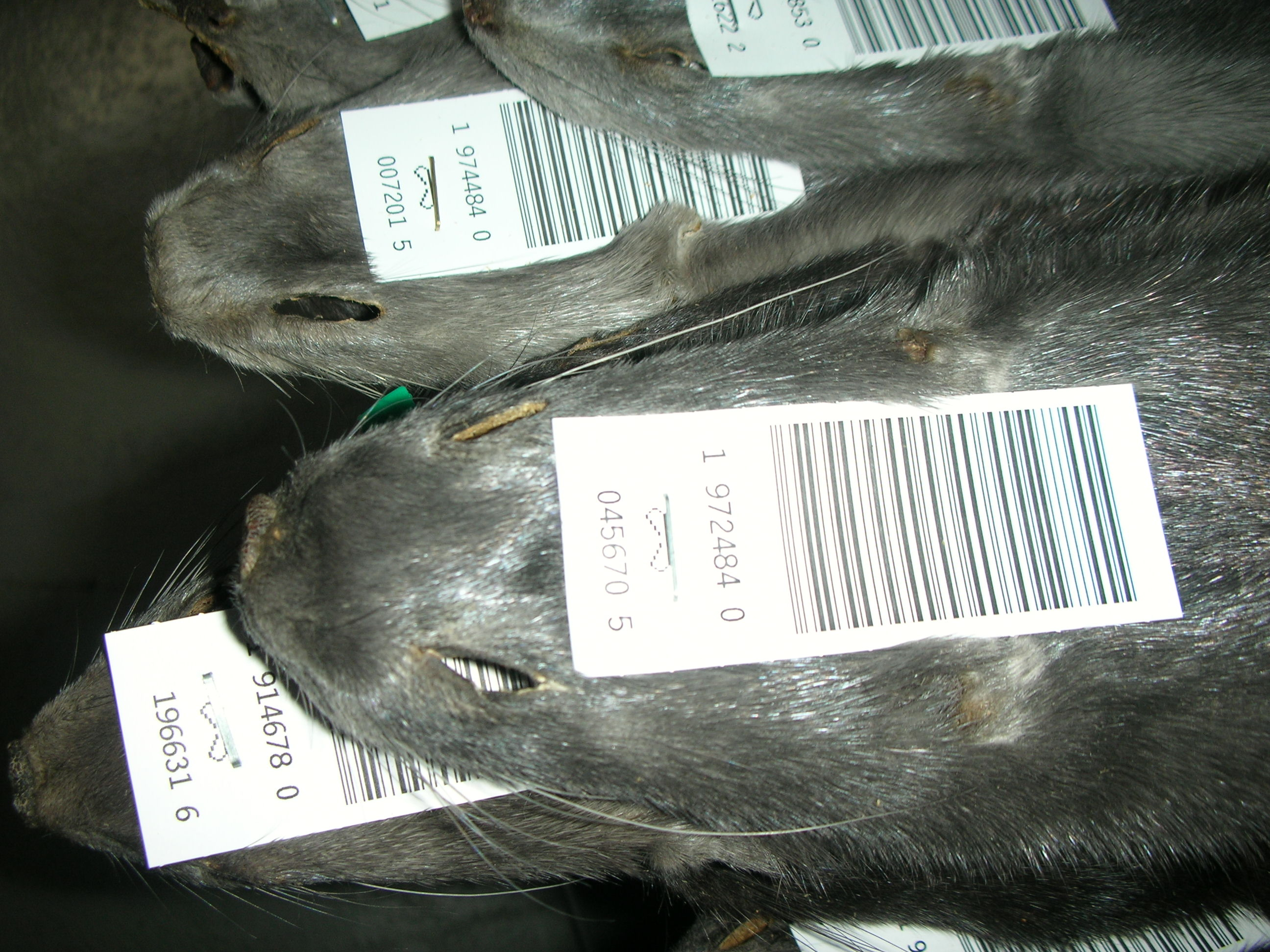 Blue Iris mink pelts in the warehouse of the auction house Kopenhagen Fur.